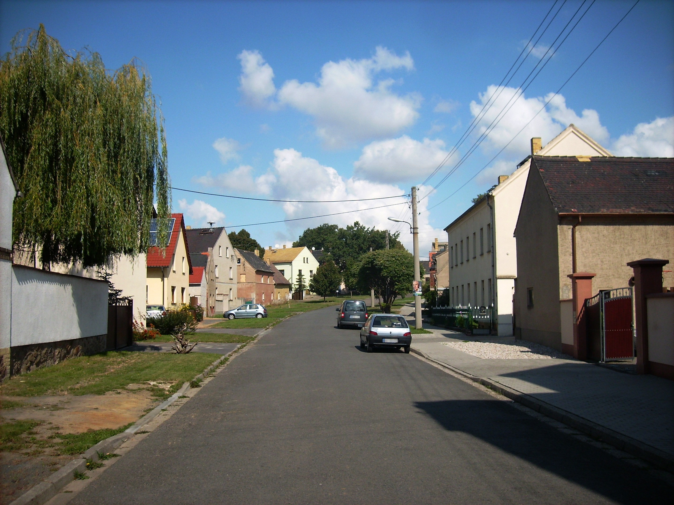 Zum Oberdorf in Ochelmitz (Jesewitz, Nordsachsen district, Saxony)